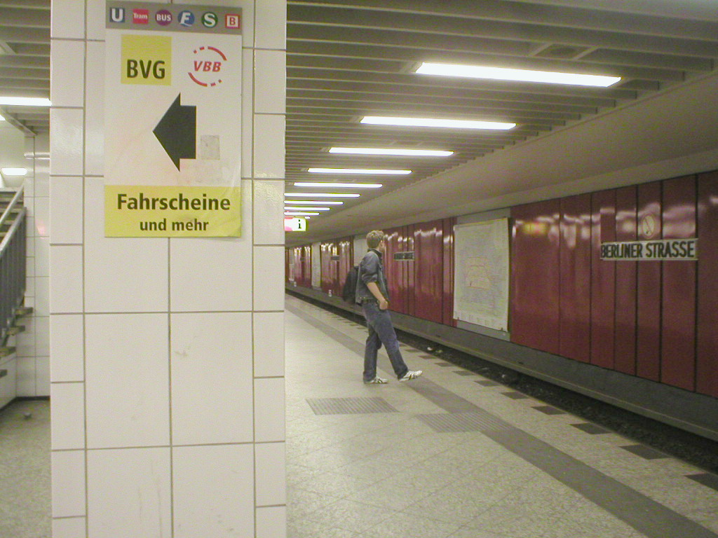 Berlin subway station Berliner Straße, platform of the line U7